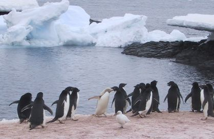 I took this photo on Gourdin Island in December 2002. Details on my trip can be found at